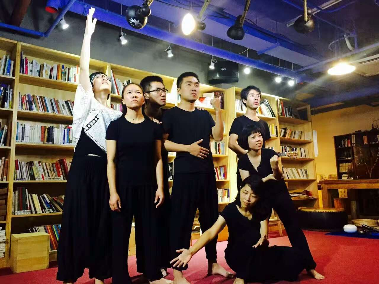 How drama therapy works in a workshop